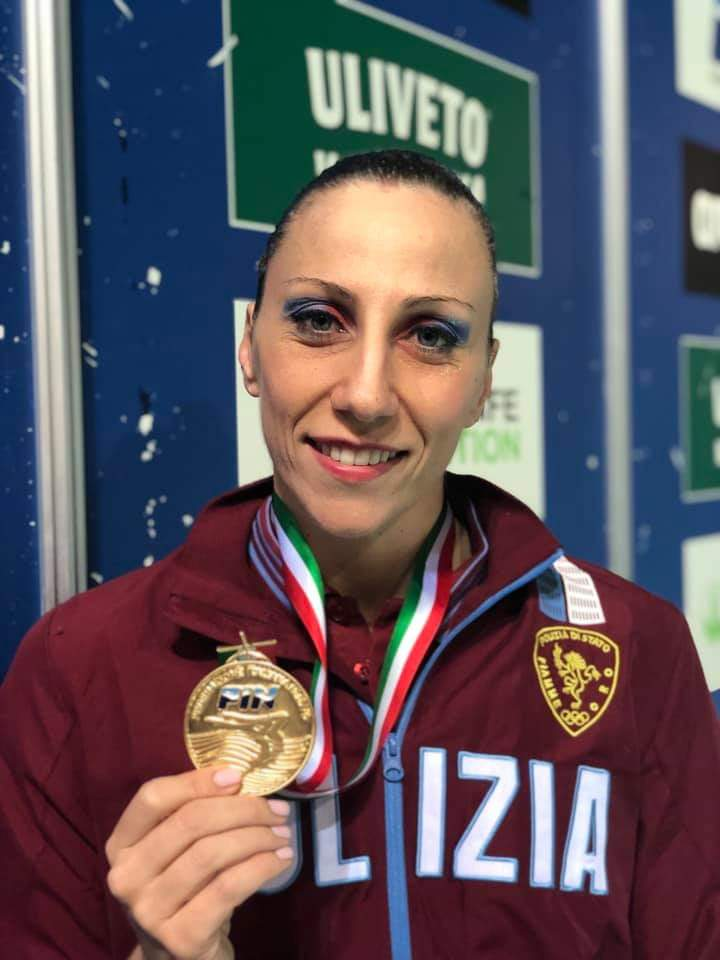 Manila Flamini win the Italian championship 2019